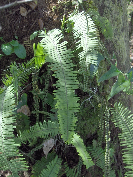 Plume Polypody